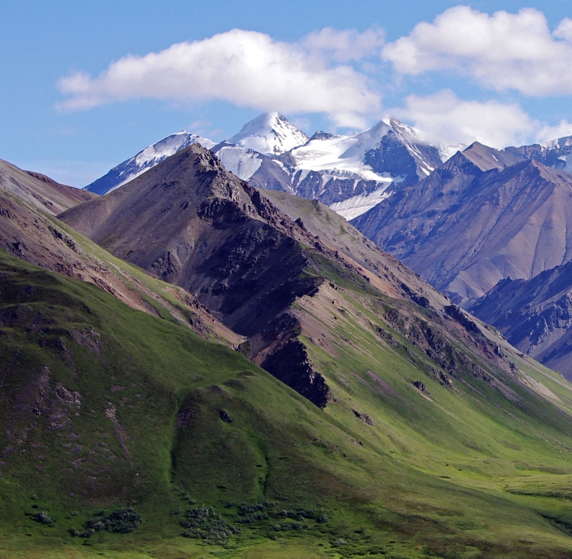 The snow-covered pyramid of Scott Peak seen from Eielson Visitor Center in Denali National Park, Alaska.